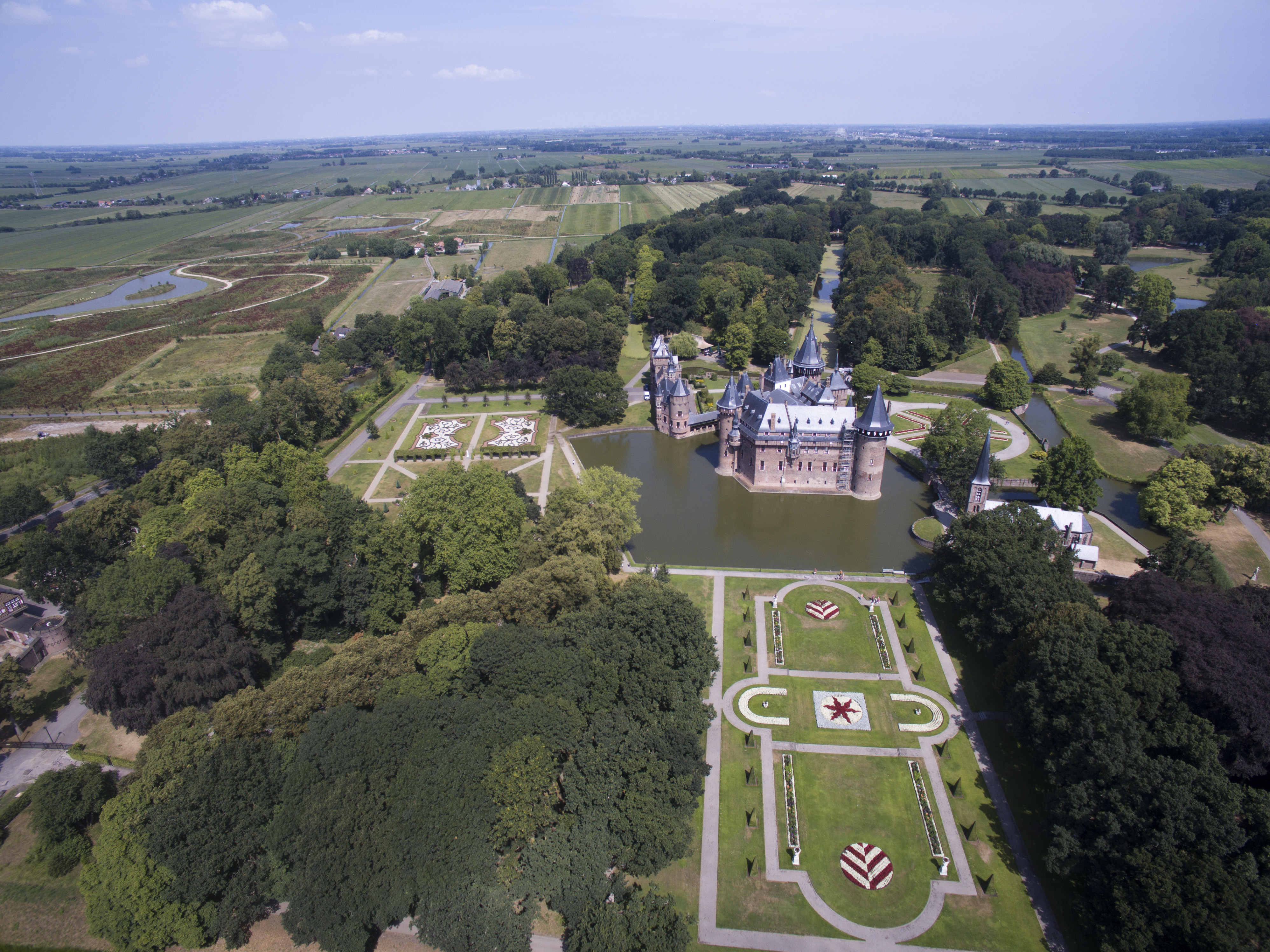 De Haar Castle Drone Photo 2018